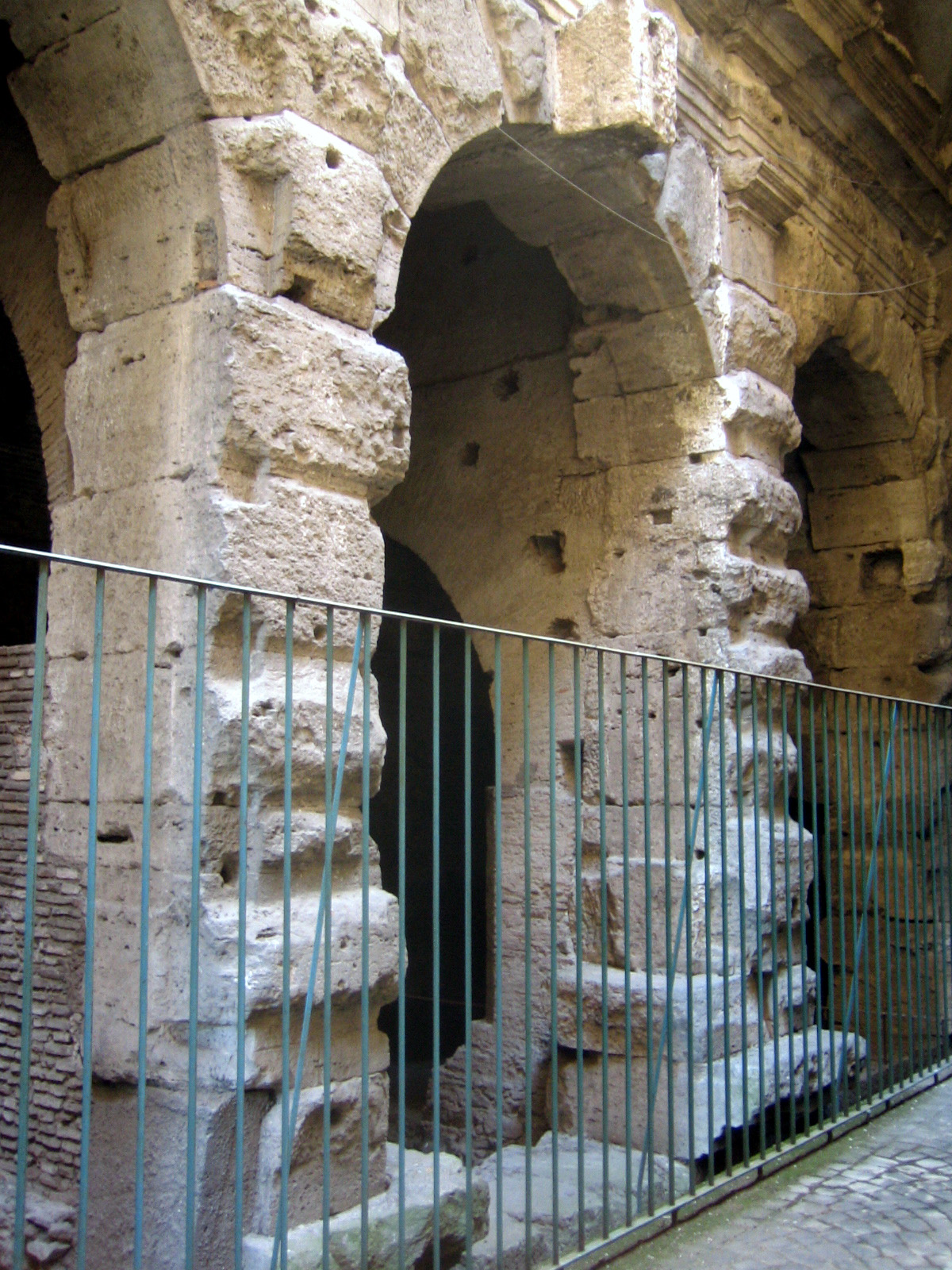 Under the huge Passionist monastery on the Celian hill, the platform of the temple of the deified Claudius remains.